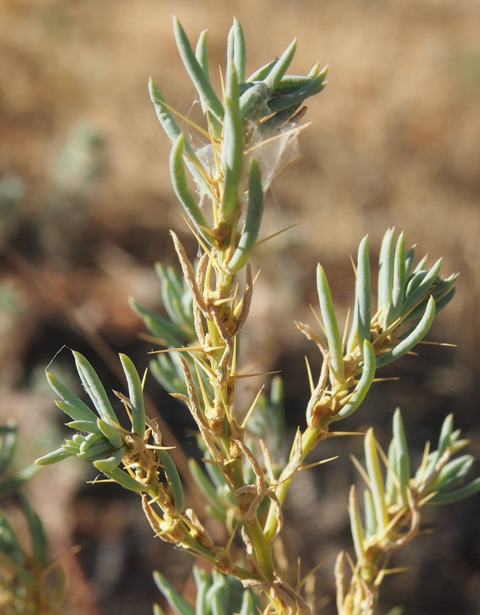 Sclerolaena cuneata fruit and foliage